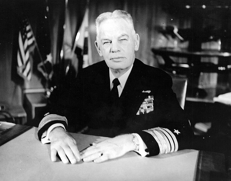 Vice Admiral Harold M. Martin as Commander Air Force, U.S. Pacific Fleet. Official U.S. Navy, circa 1953-56